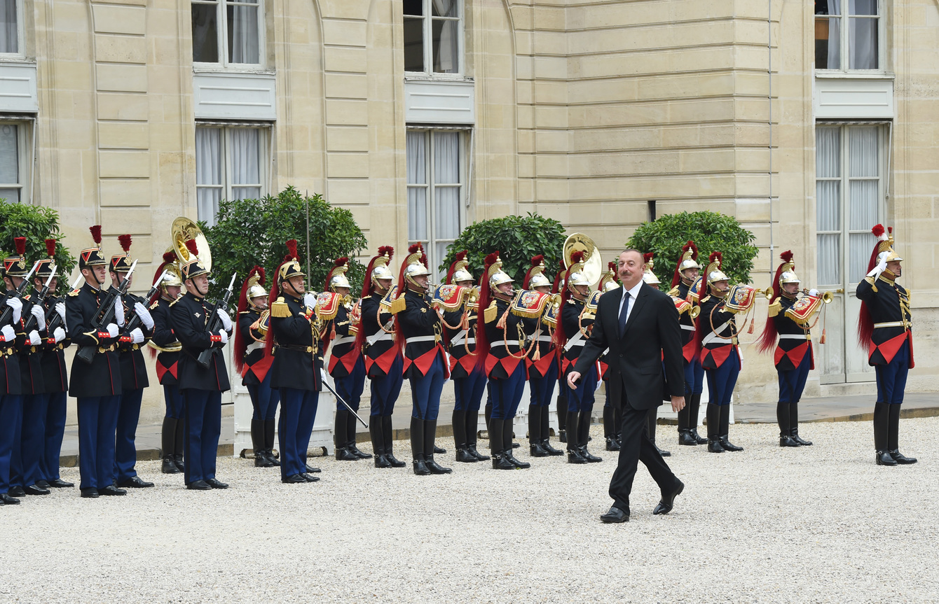 Ilham Aliyev met with French President Emmanuel Macron